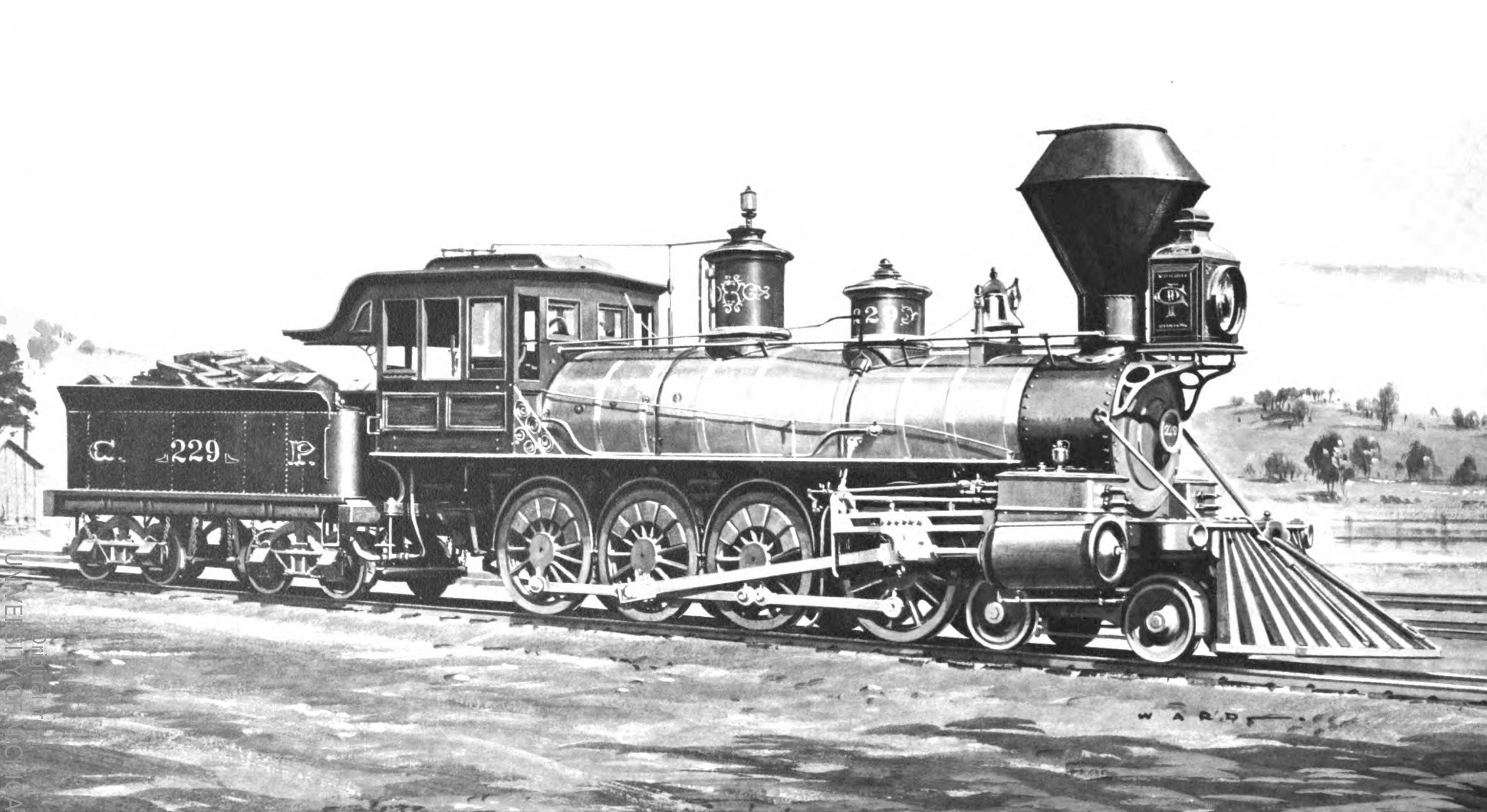 A painting by Richard Ward of Central Pacific No. 229 "Mastodon," in Rocklin, California, 1885.